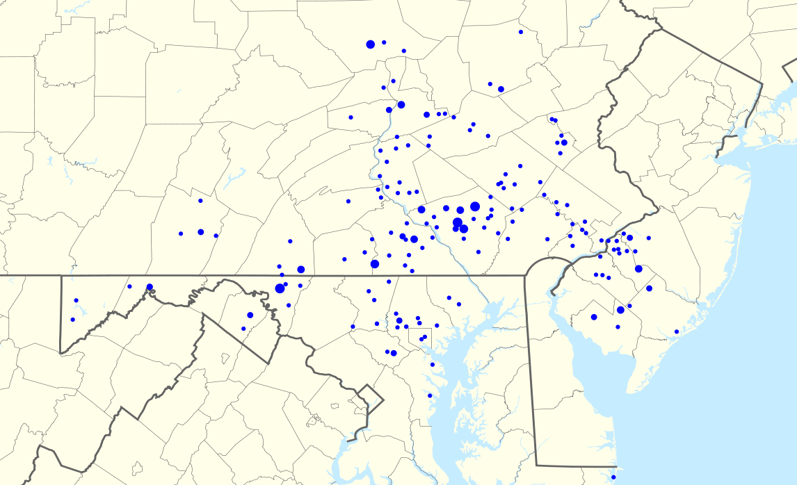 Footprint of Susquehanna Bank branches within the eastern seaboard of the United States. Zip codes with more than one branch have progressively larger points.